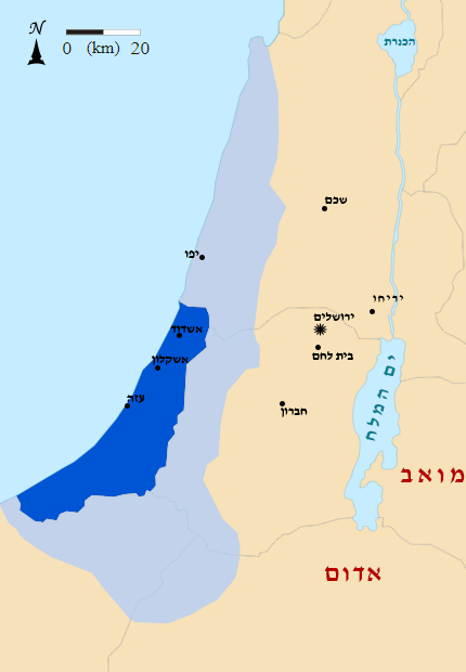 Philistine Language Map